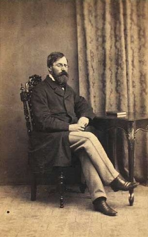 Julius Theodor Vilhelm Bauditz (1817-1885), Danish jurist and civil servant